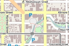 Map of Christchurch, New Zealand Geographic limits of the map: * N: -43.52° * S: -43.547° * W: 172.613° * E: 172.667°